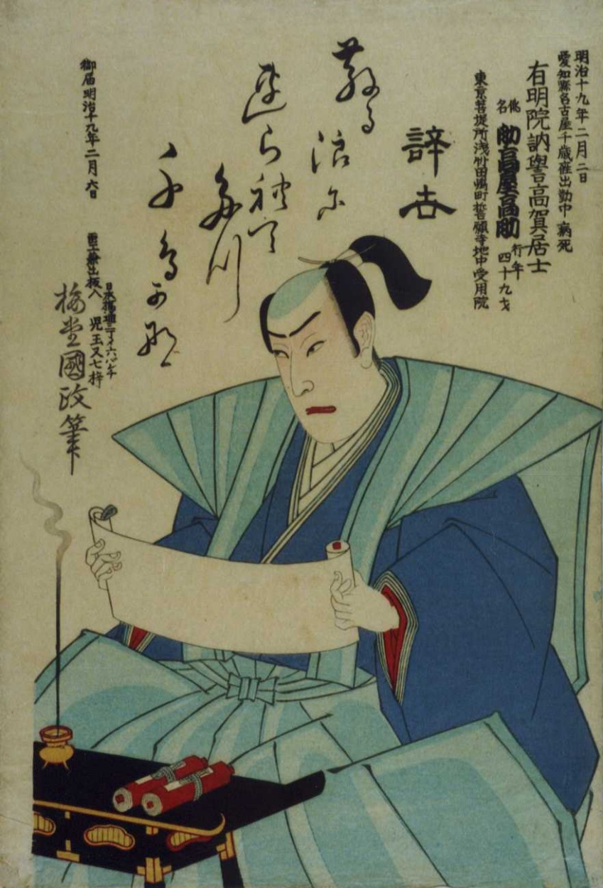 woodblock print by Utagawa Kunisada III, shini-e (memorial print) pf the actor Suketakaya Takasuke IV, 1886